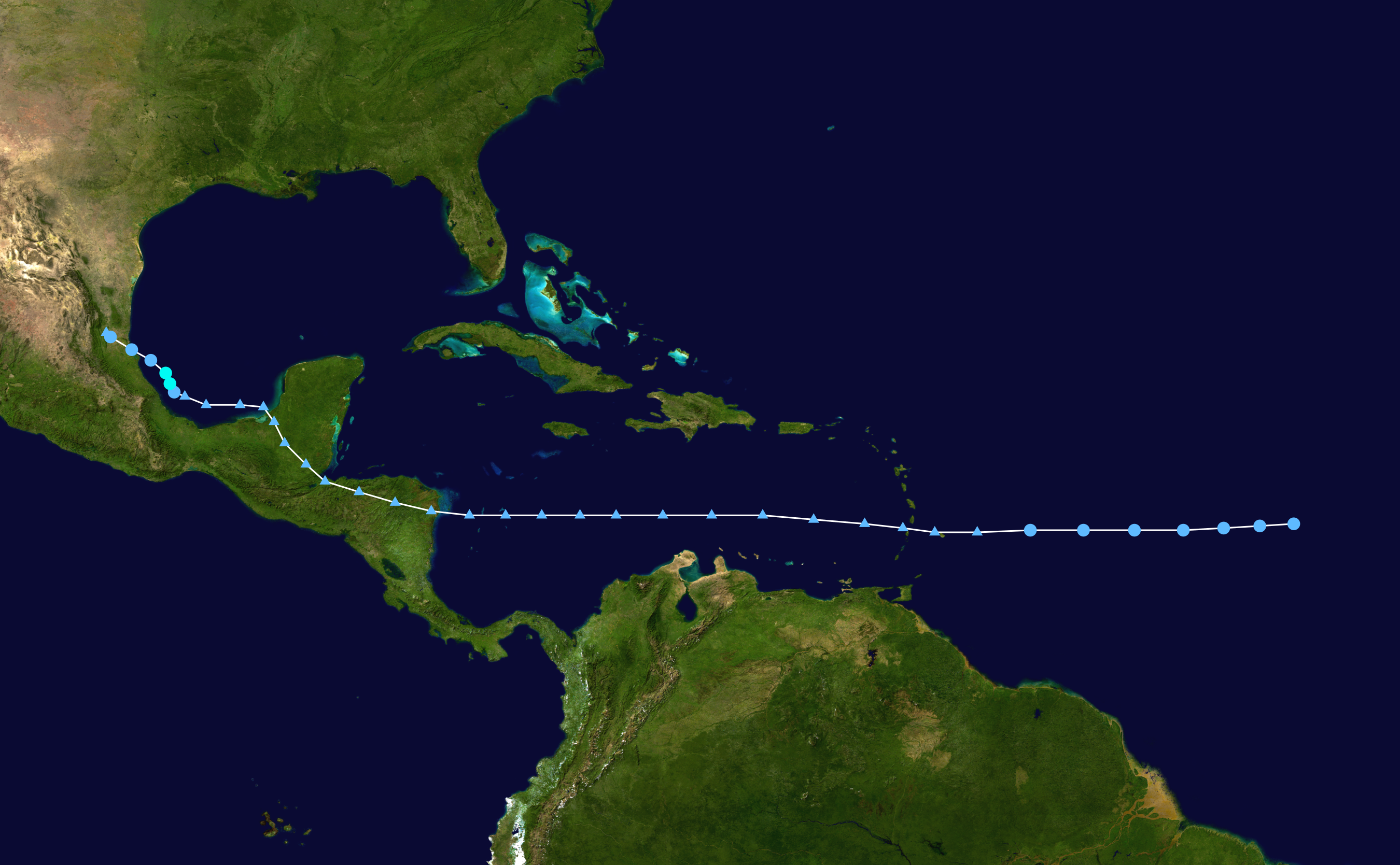 Track map of Tropical Storm Helene of the 2012 Atlantic hurricane season. The points show the location of the storm at 6-hour intervals. The colour represents the storm's maximum sustained wind speeds as classified in the Saffir–Simpson scale (see below), and the shape of the data points represent the nature of the storm, according to the legend below. Saffir–Simpson scale Tropical depression≤38 mph≤62 km/h Category 3111–129 mph178–208 km/h Tropical storm39–73 mph63–118 km/h Category 4130–156 mph209–251 km/h Category 174–95 mph119–153 km/h Category 5≥157 mph≥252 km/h Category 296–110 mph154–177 km/h Unknown Storm type Tropical cyclone Subtropical cyclone Extratropical cyclone / Remnant low / Tropical disturbance / Monsoon depression